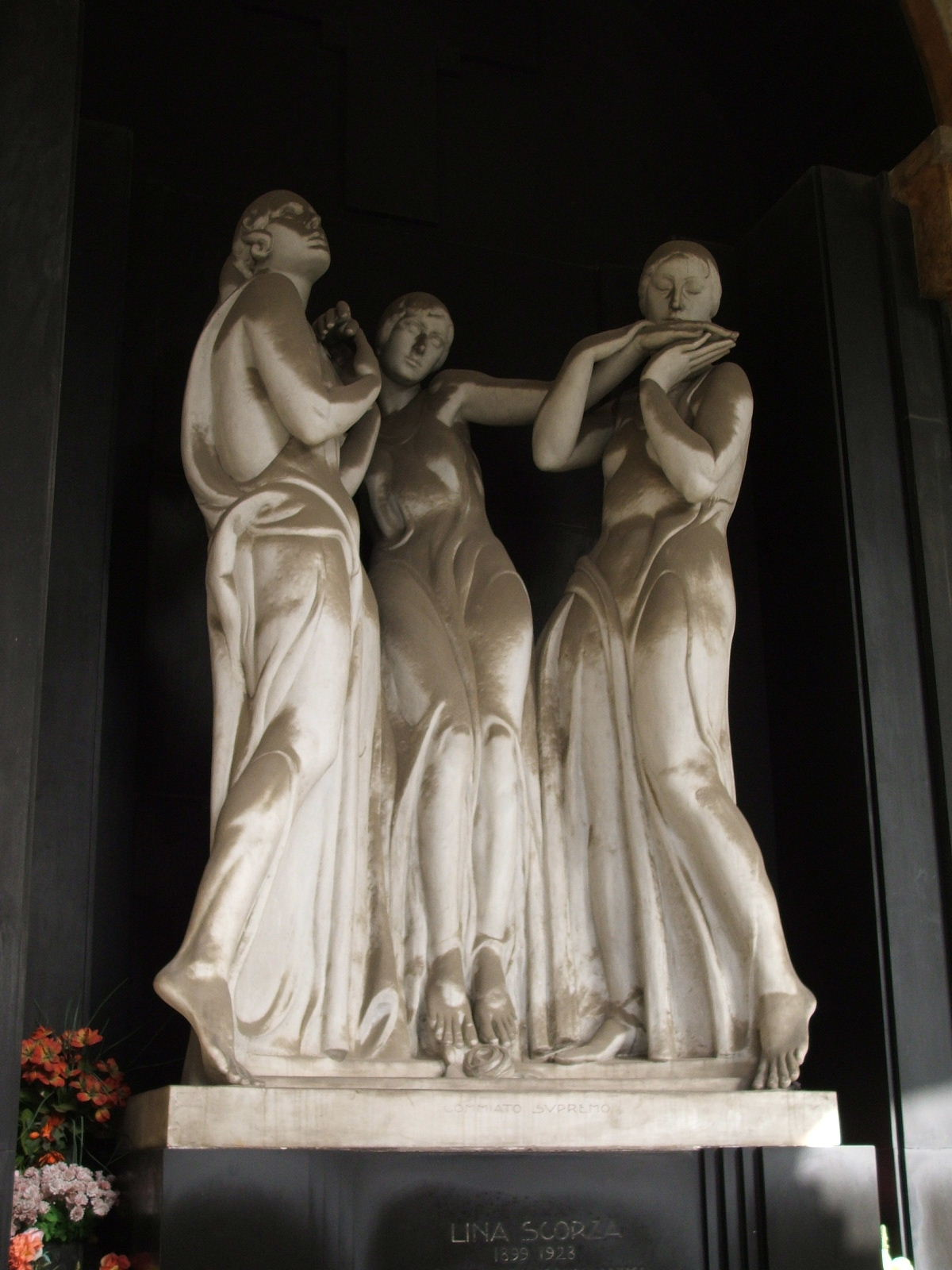 Last Leave (Commiato Supremo), Sepulchral Monument of the Scorza Family. Sculptor: Edoardo De Albertis, 1929